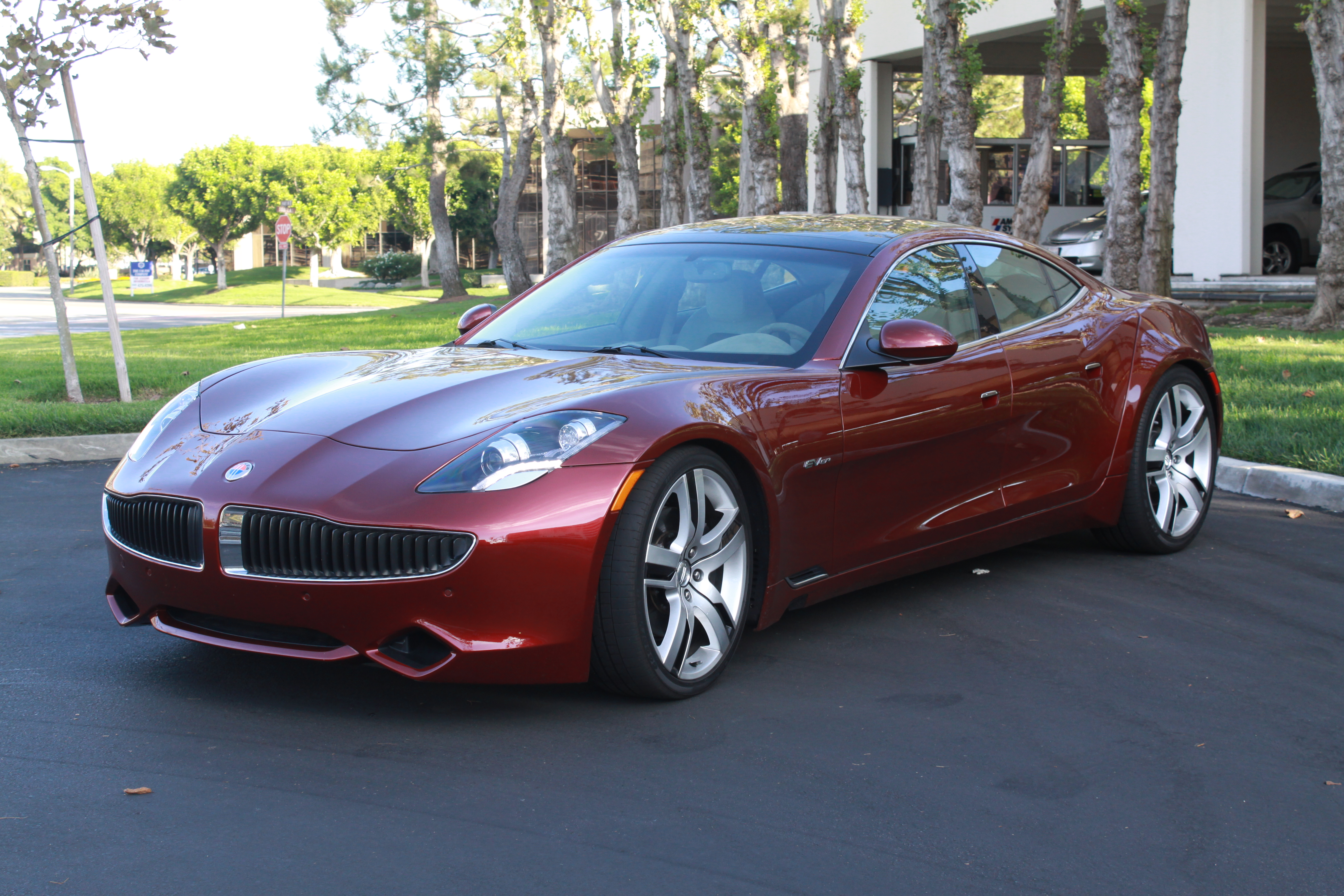 Fisker Karma INferno Paint